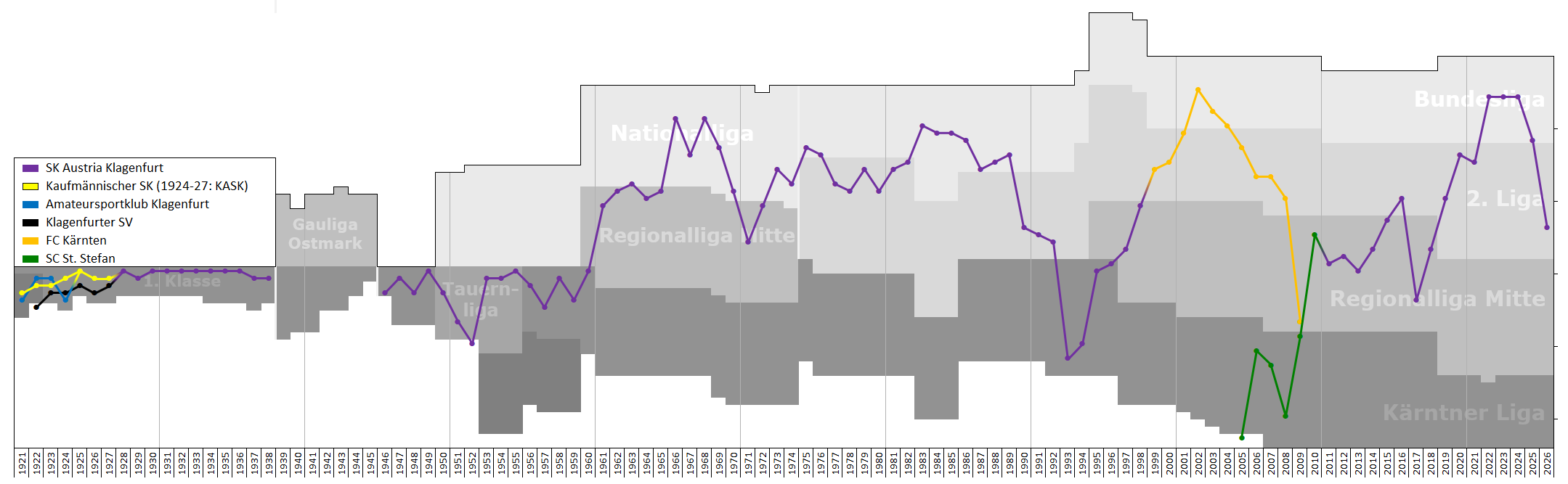 Chart of end-season table positions of Austria Klagenfurt and its predecessors in the Austrian football league system. Data source: RSSSF, , regiowiki.at, kfv-fussball.at, wikipedia